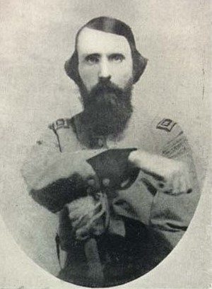 Depicted person: Frank A. Montgomery – Confederate States Army officer